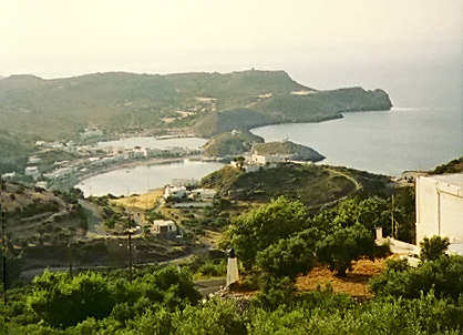 View from Kythira's capital, Hora, on Kapsali.